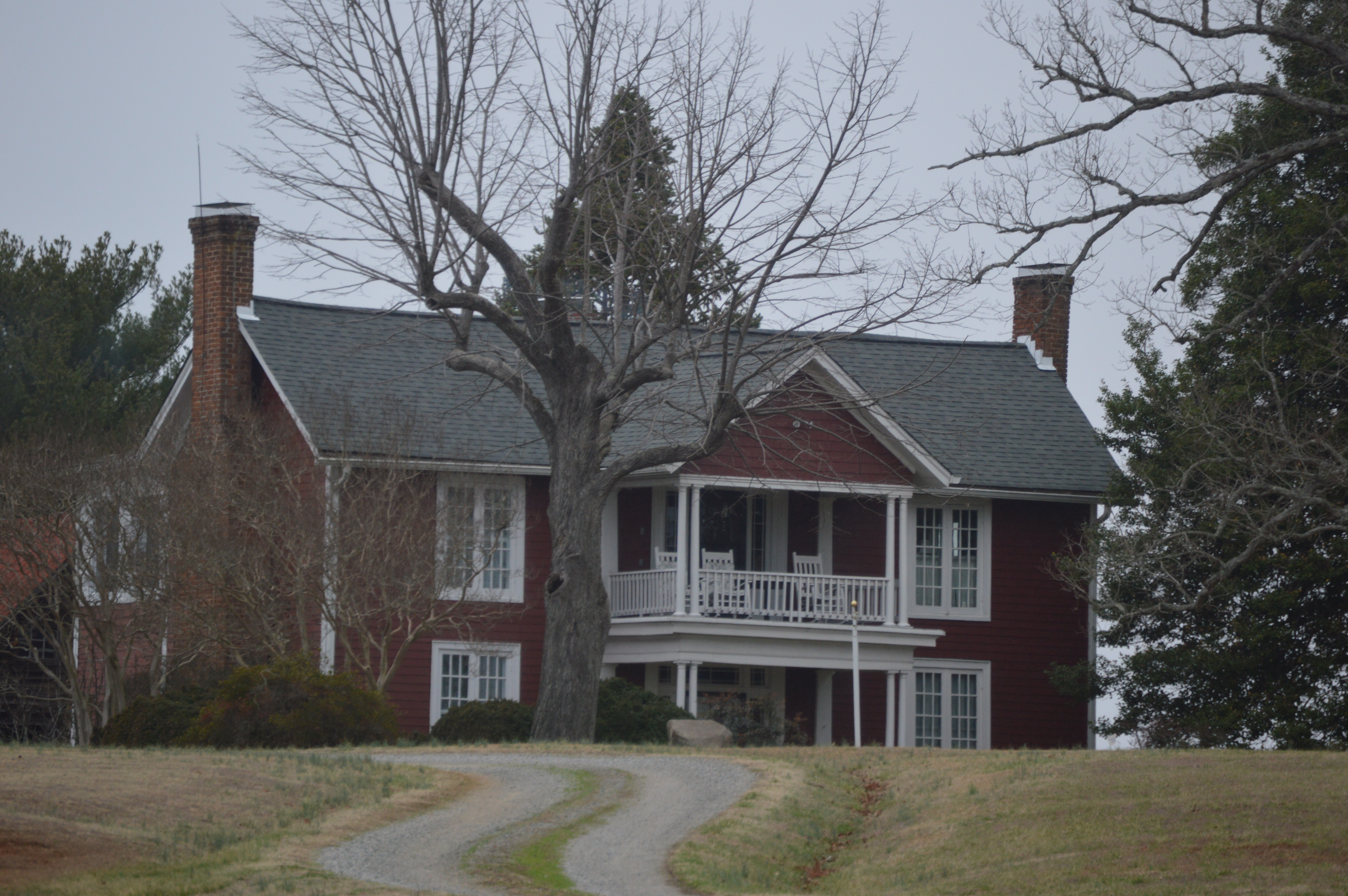 Front and southern side of Brandon-on-the-Dan, located on State Route 119 in the southwestern corner of Halifax County, Virginia, United States. Built in 1855, it is listed on the National Register of Historic Places.